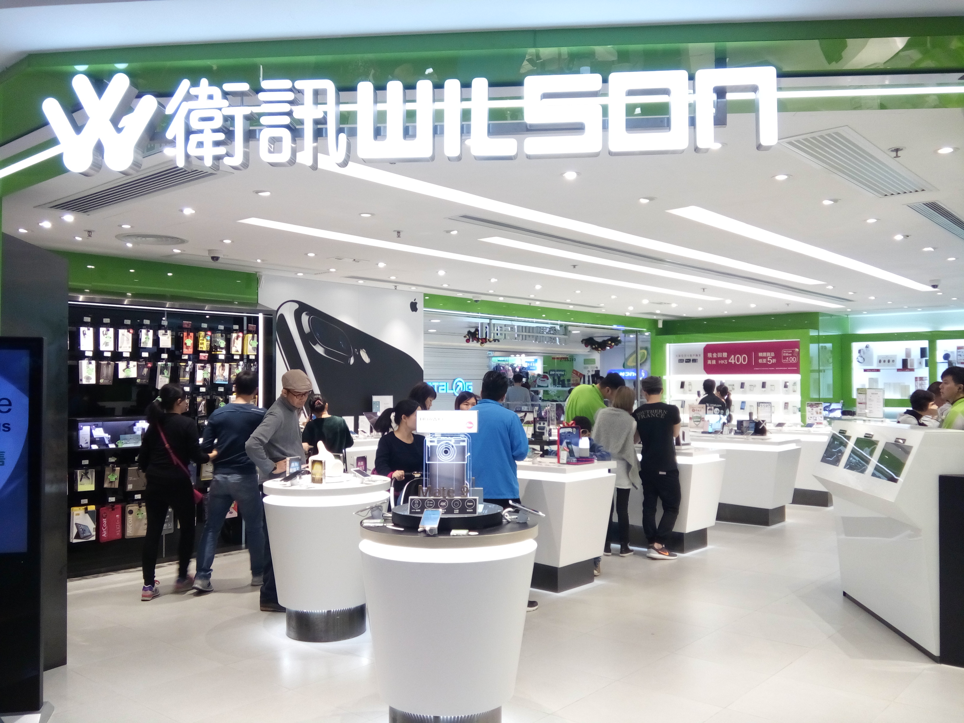 HK Sheung Shui 新都廣場 Metropolis Plaza shop in Jan 2017